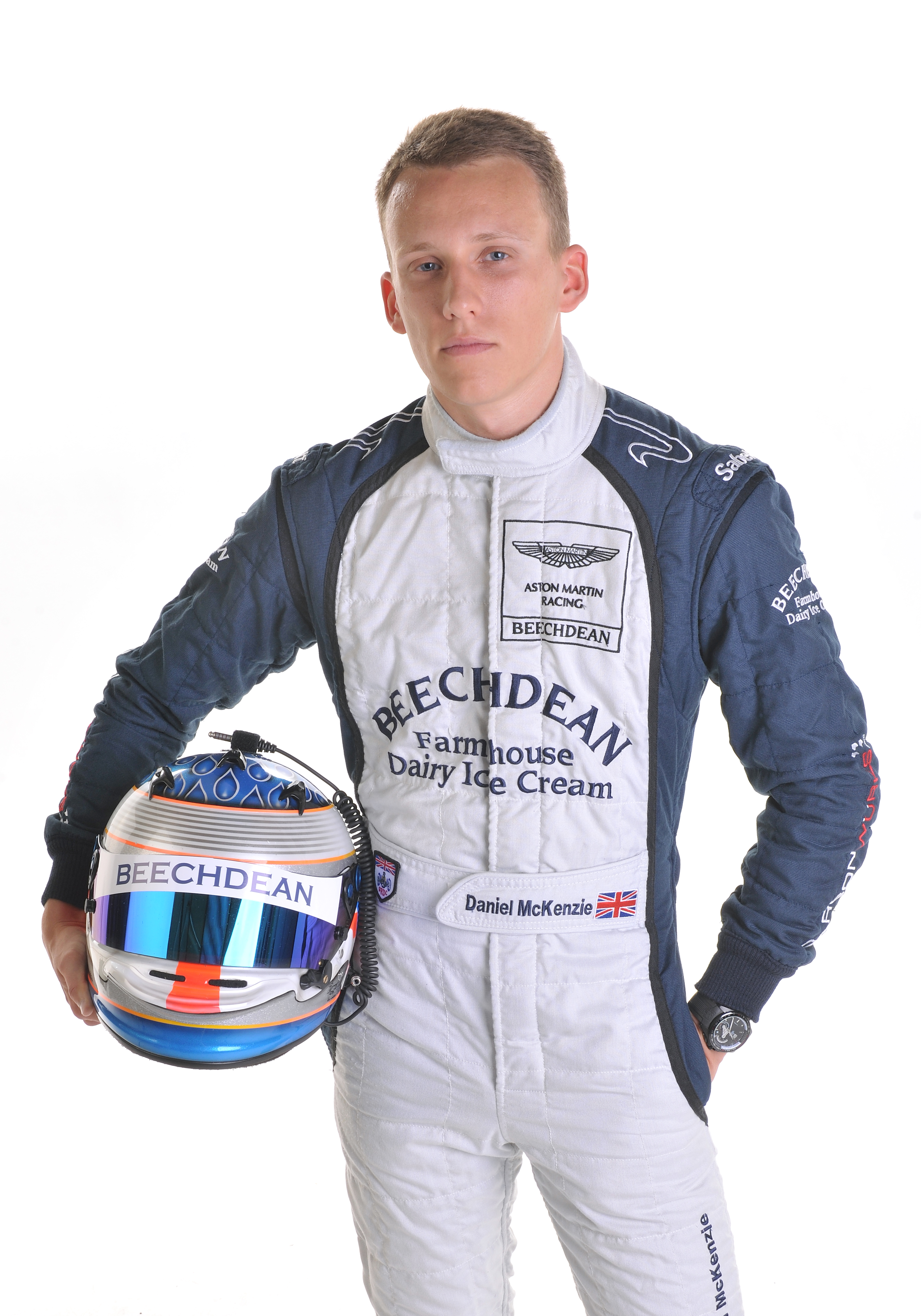 Daniel McKenzie with Beechdean Aston Martin Racing Suit with helmet.